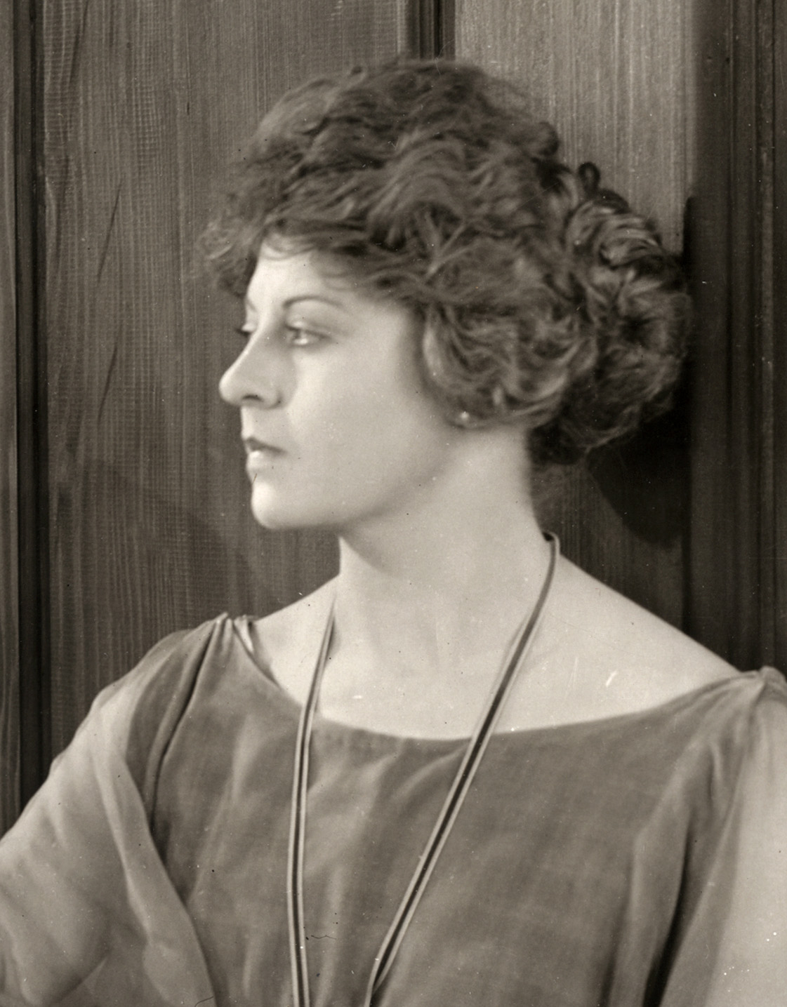 Gertrude Astor from a scene still for the 1922 silent drama Beyond the Rocks.